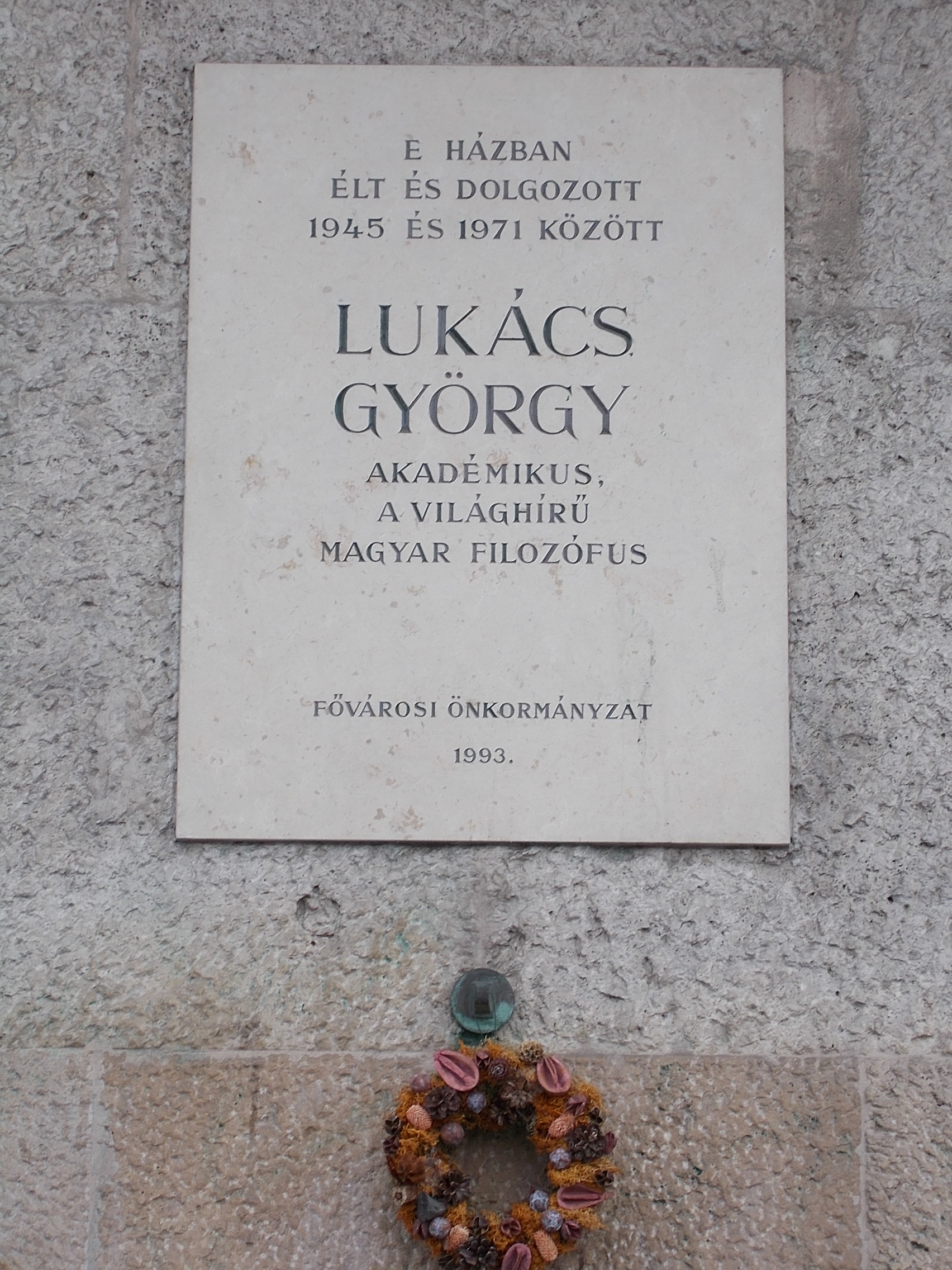 Georg Lukács here-lived here-worked plaque. - 2 Belgrád rakpart, Inner City neighbourhood, Belváros-Lipótváros district, Budapest, Hungary.